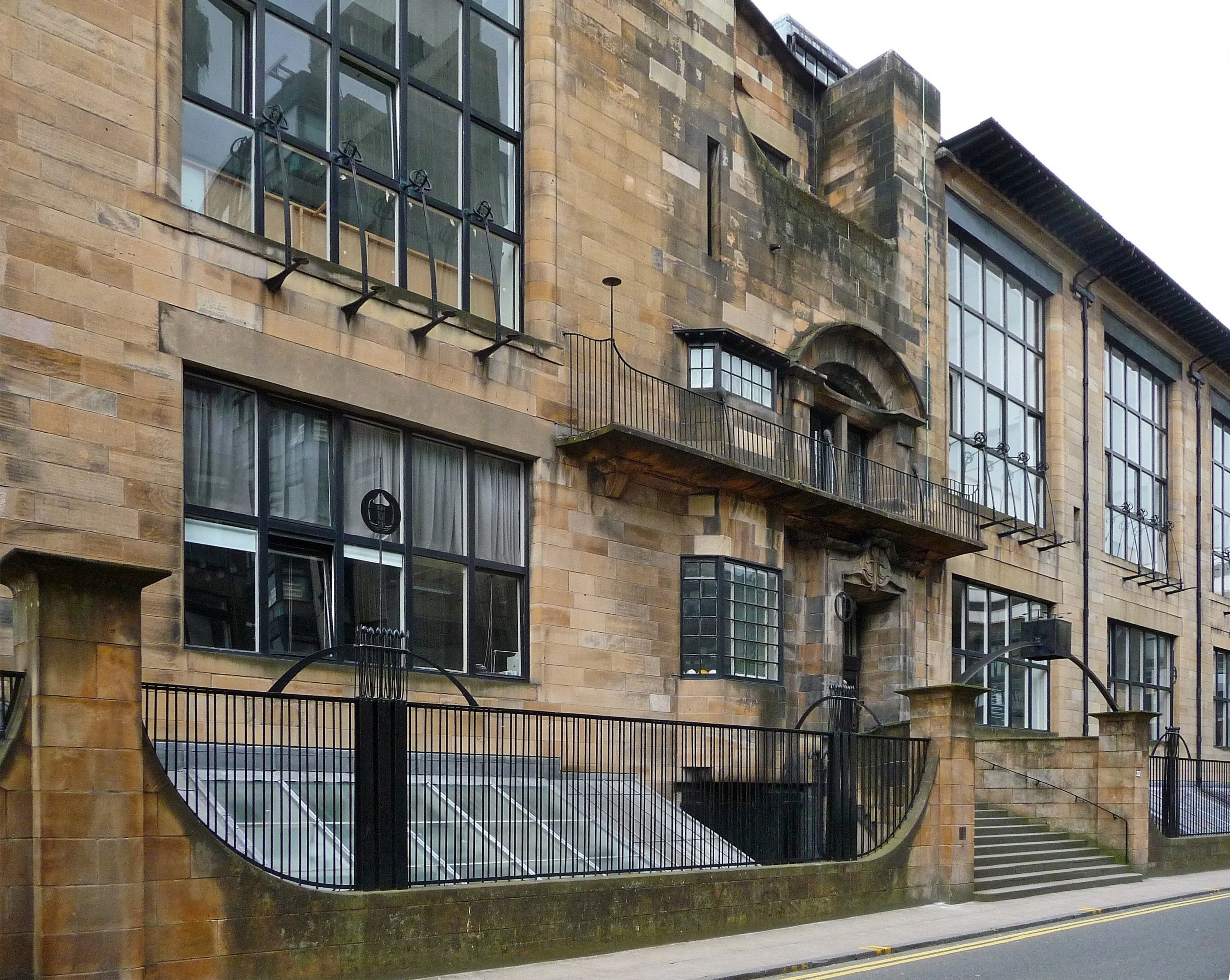 Glasgow School of Art, the Mackintosh Building, built 1897–1909 by Charles Rennie Mackintosh (1868–1928).